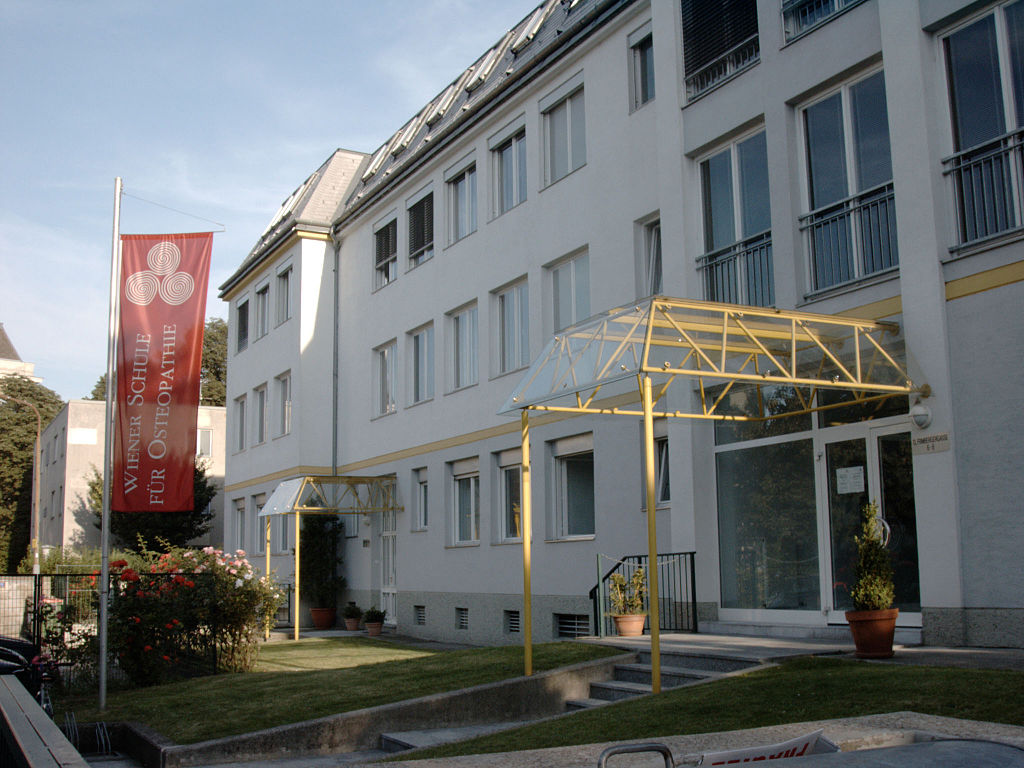 WSO building